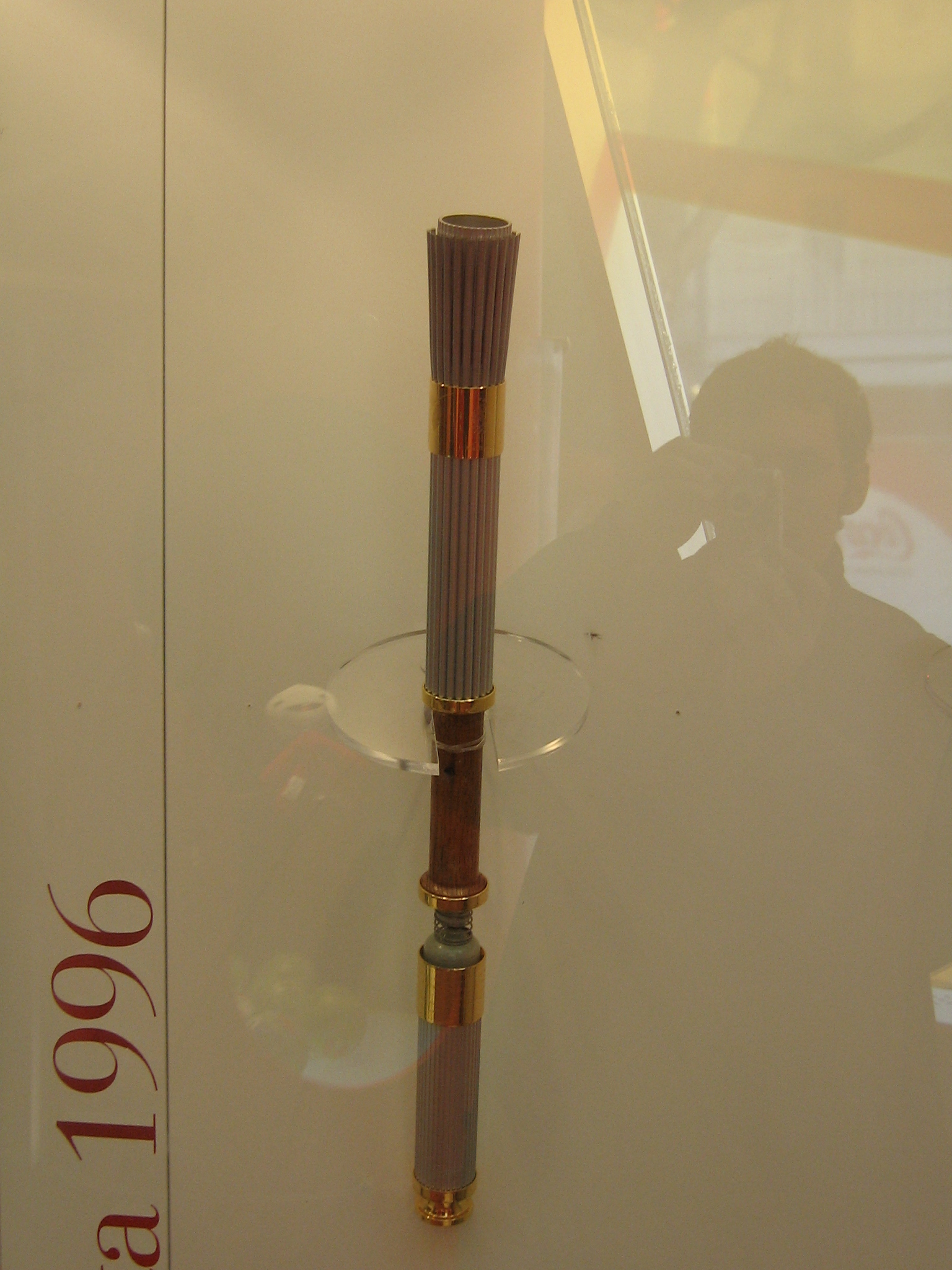 Atlanta 1996 olympic torch, Olympic museum Lausanne, temporary exhibition in Turin (Atrium Torino)